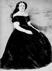 Eilley Bowers (1826-1903) as a young woman